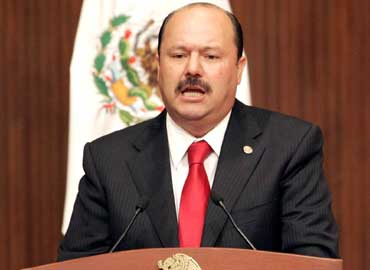 César Duarte Jáquez